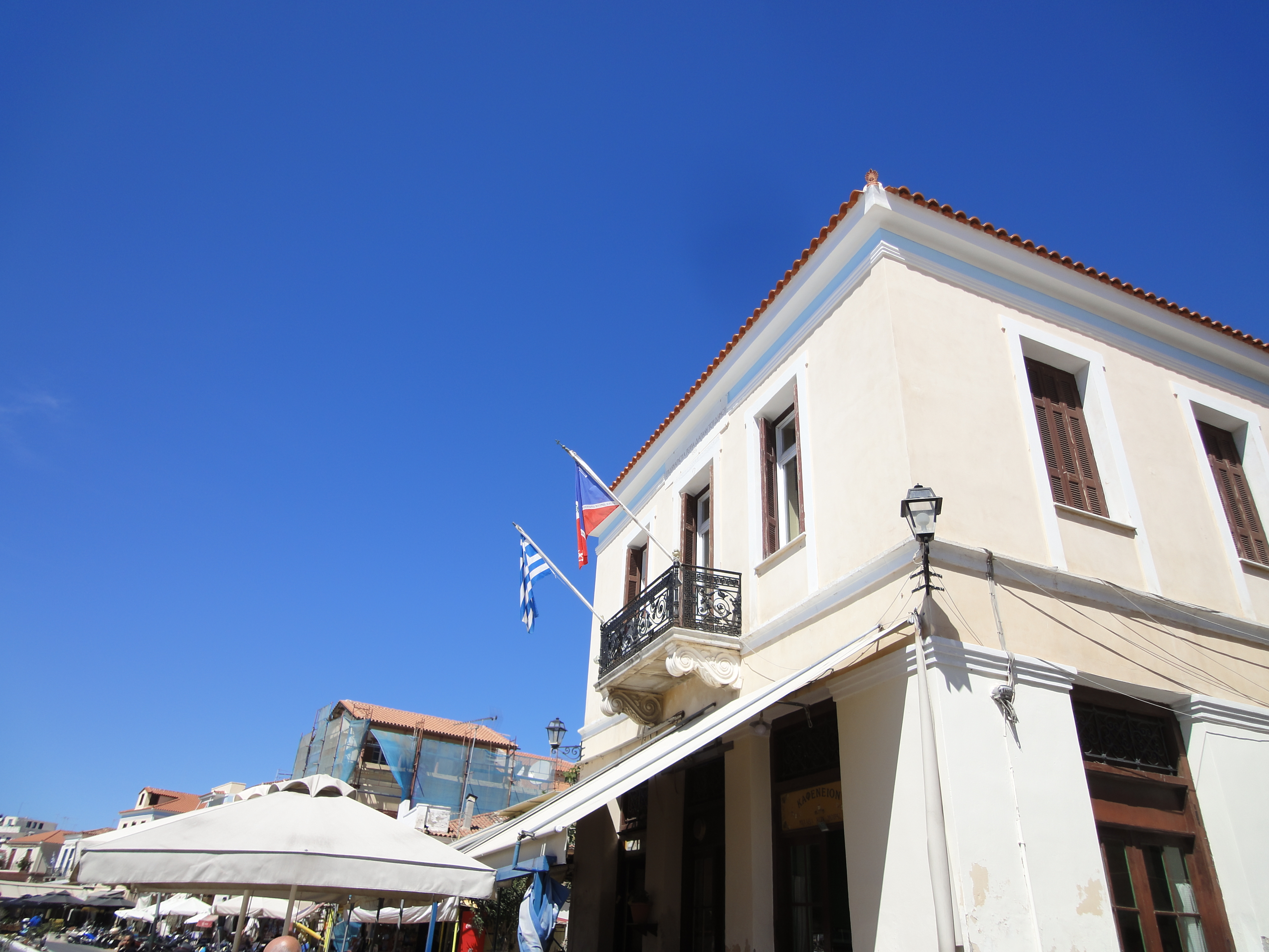 Town Hall of the municipality of Aegina